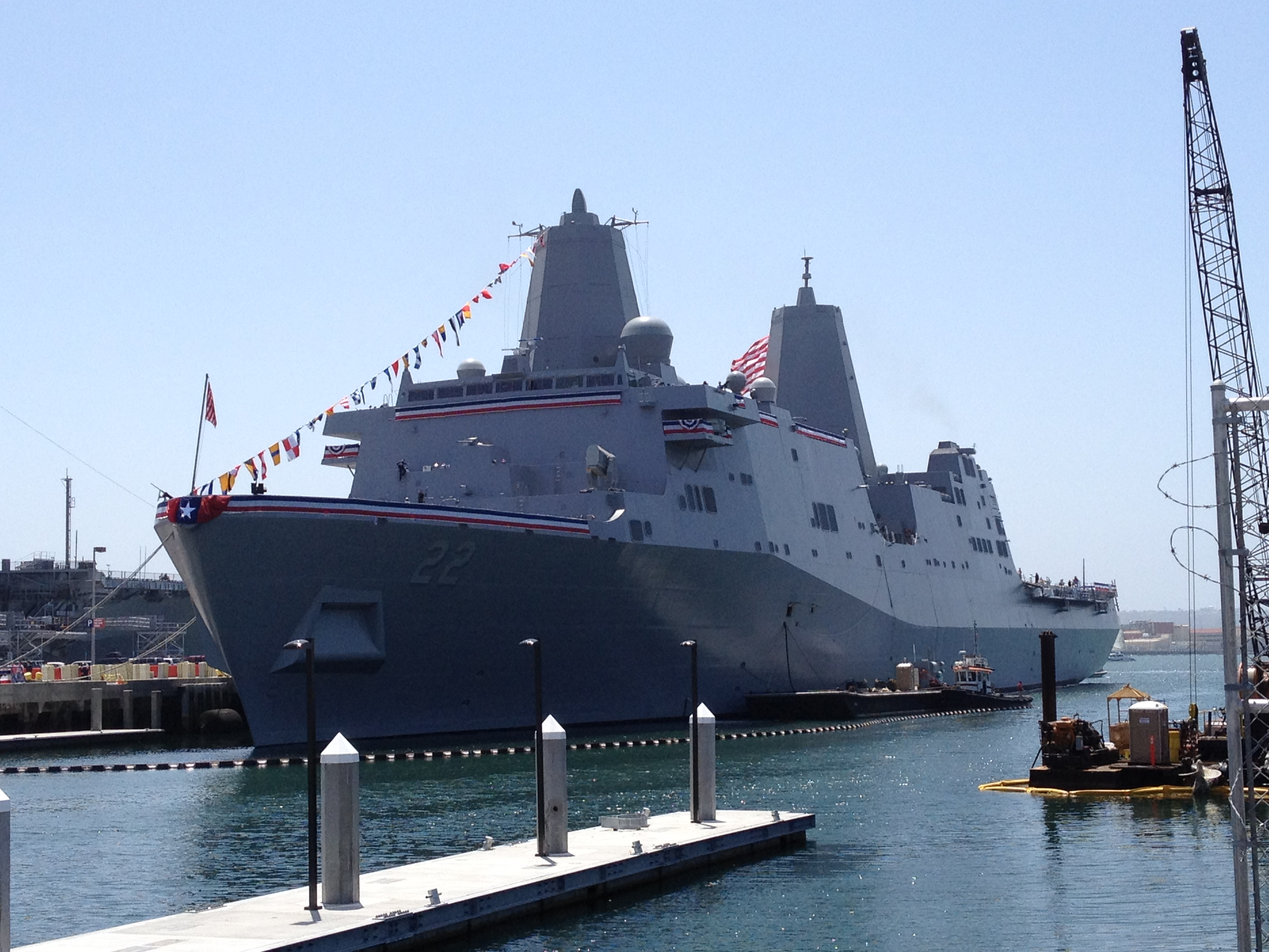 A photograph of the USS San Diego (LPD-22) dressed out in her commissioning colors, moored next to the USS Midway Museum in San Diego, California, USA on 19 May 2012. The commissioning ceremony itself occurred approximately 3 hours prior to this photo being taken.